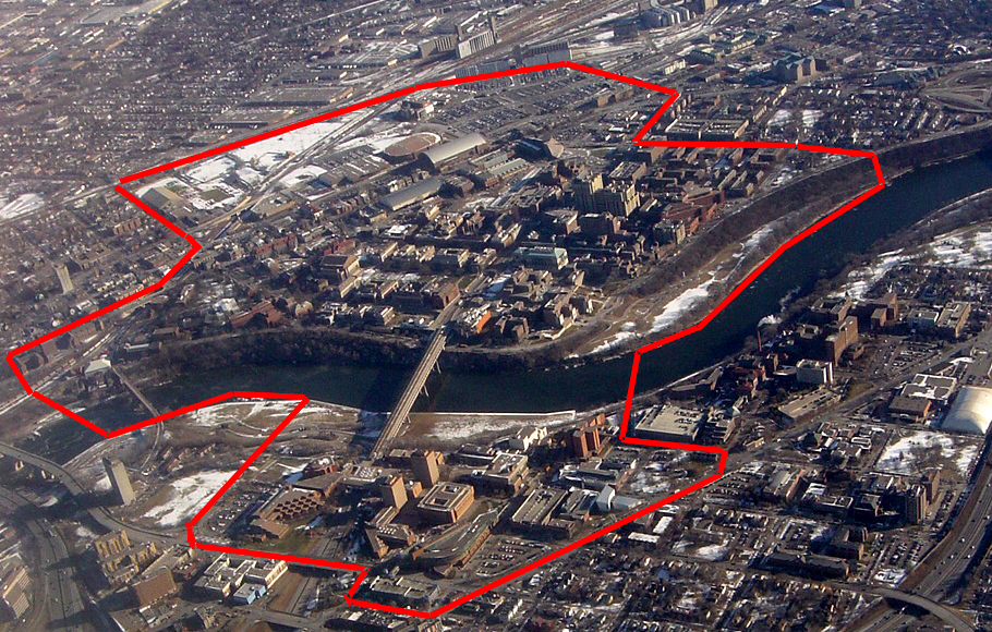 The Minneapolis Campus of the University of Minnesota. The Mississippi River separates the West Bank of campus (bottom of photo) from the much larger East Bank (top). The photo is oriented accordingly, with North to the left of the frame. The large Washington Avenue Bridge is the primary connection between the two sides of the campus. The outlined area is a general depiction of the campus but not everything within the contour is university-related or university property.